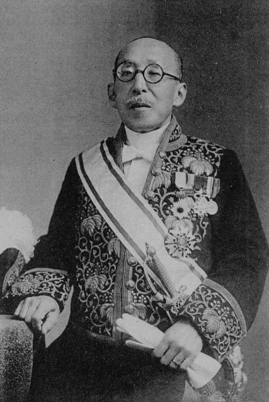 Portrait of Mr. Unokichi Hattori at 70 years old.